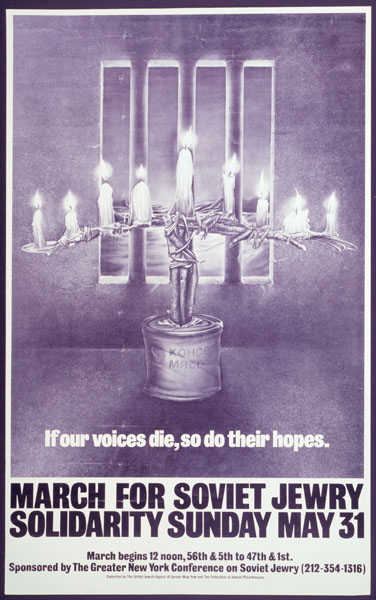 Title: "If our voices die, so do their hopes. March for Soviet Jewry Solidarity Sunday May 31" Description: Prison-made menorah in front of prison bars. Creator/Photographer: The Greater New York Conference on Soviet Jewry Medium: Poster Date: undated Persistent URL: Repository:American Jewish Historical Society Parent Collection: National Conference on Soviet Jewry Records, selected materials Call Number: I-181.027 Rights Information: No known copyright restrictions; may be subject to third party rights. For more copyright information, click here. See more information about this image and others at CJH Digital Collections. To inquire about rights and permissions, or if you have a question regarding the collection to which the image belongs, please contact the Reference Department of the American Jewish Historical Society by email. Digital images created by the Gruss Lipper Digital Laboratory at the Center for Jewish History.